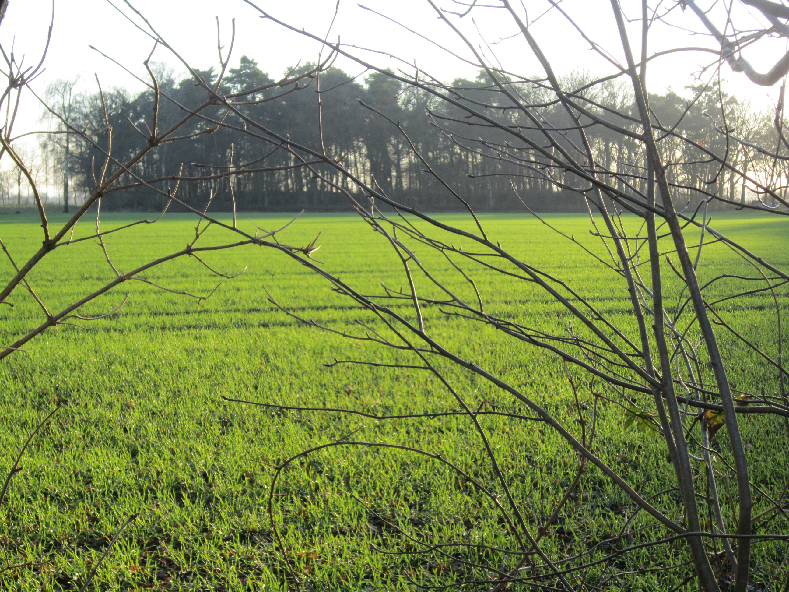 Great hill fort Sierhausen; City of Damme (Dümmer) in Lower Saxony